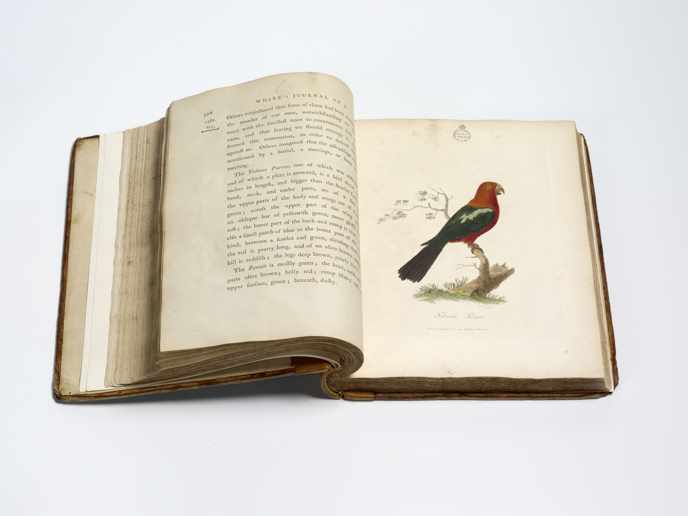 Photograph of the Journal of a voyage to New South Wales : with sixty-five plates of non descript animals, birds, lizards, serpents, curious cones of trees and other natural productions by John White. One page has a drawing of a Tabuan parrot. John White was the chief surgeon on the First Fleet.